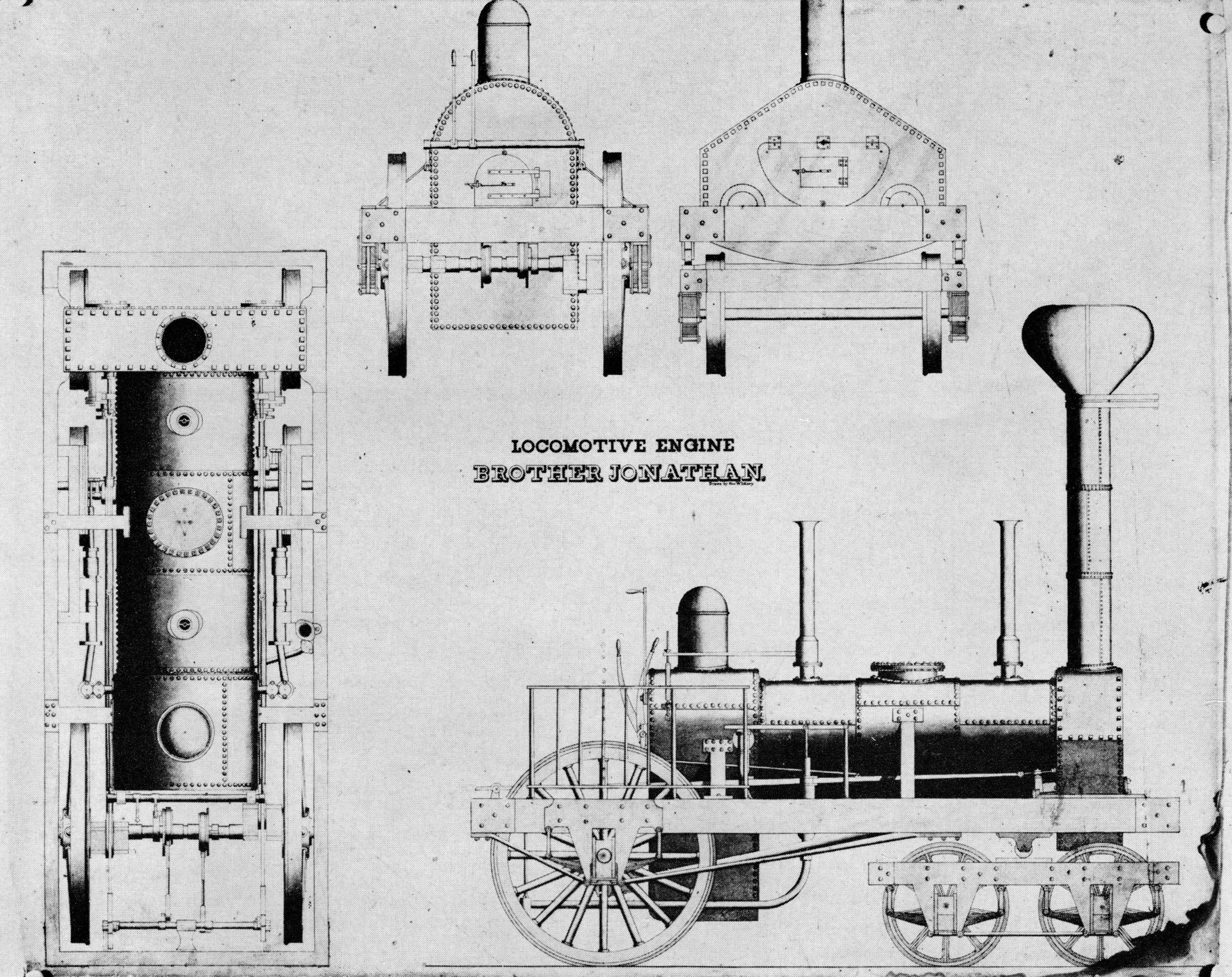 Title: Introduction of the Locomotive Safety Truck Contributions from the Museum of History and Technology: Paper 24 Author: John H. White Release Date: May 12, 2008 [EBook #25454] and specifically Page 119 Original caption Figure 1.—Design drawing showing the 4-wheel leading truck, developed in 1831 by John B. Jervis, applied to the Brother Jonathan. This locomotive, one of the earliest to use a leading truck, was built in June 1832 by the West Point Foundry Association for the Mohawk and Hudson Rail Road. The truck is attached to the locomotive frame by a center pin, but the forward weight of the locomotive is carried by a roller which bears on the frame of the truck. (Smithsonian photo 36716-a)